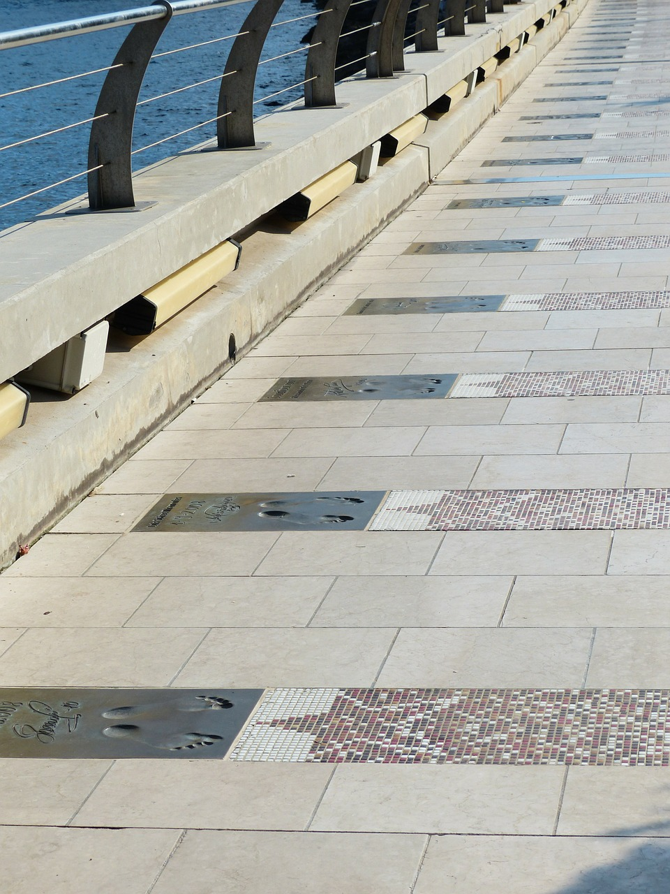 Foot prints of famous footballers in Monaco